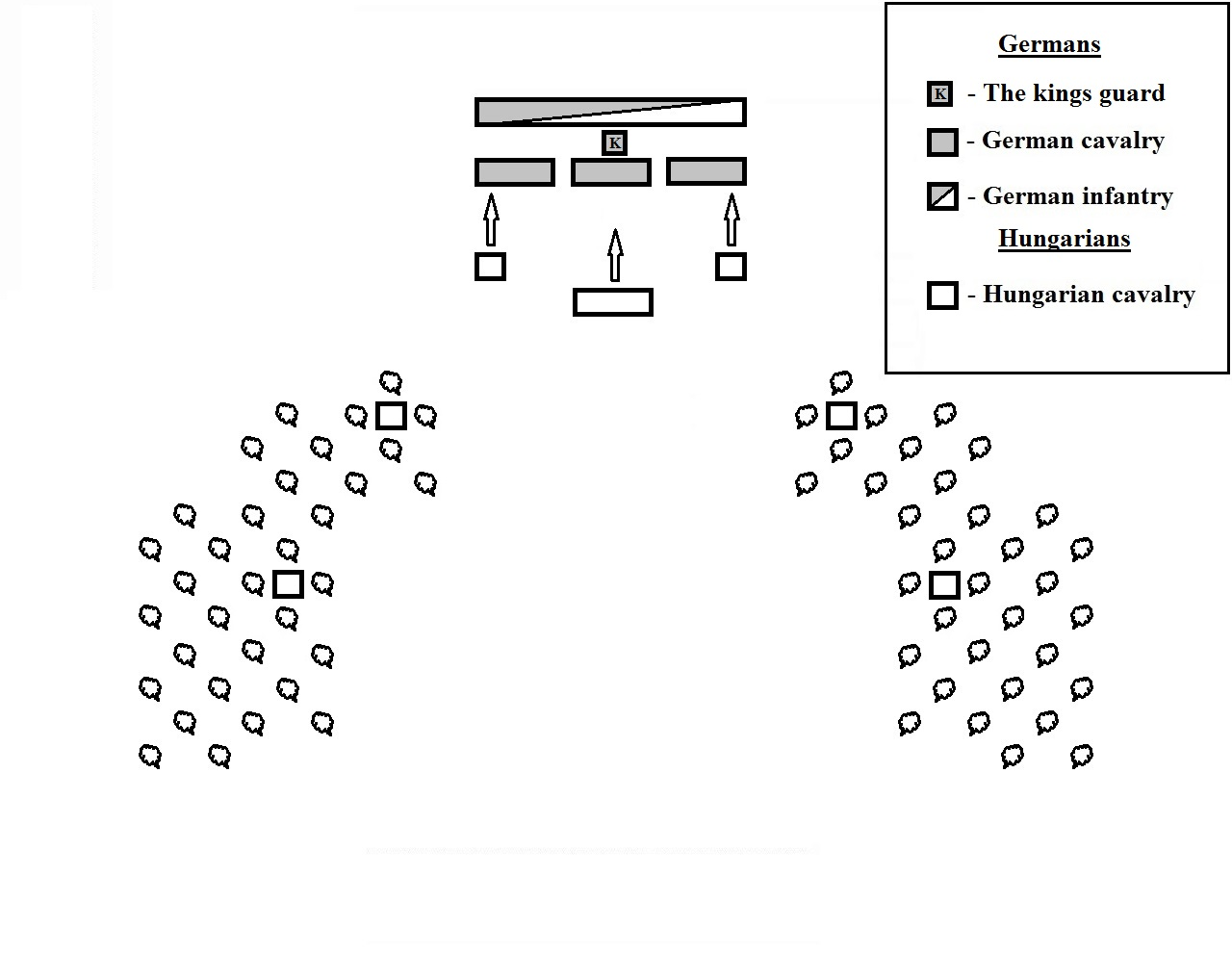 The two armies are face to face, and the Hungarian horse archers are shooting arrows on the Germans, trying to lure them towards the forrest where their hidden troops are waiting.